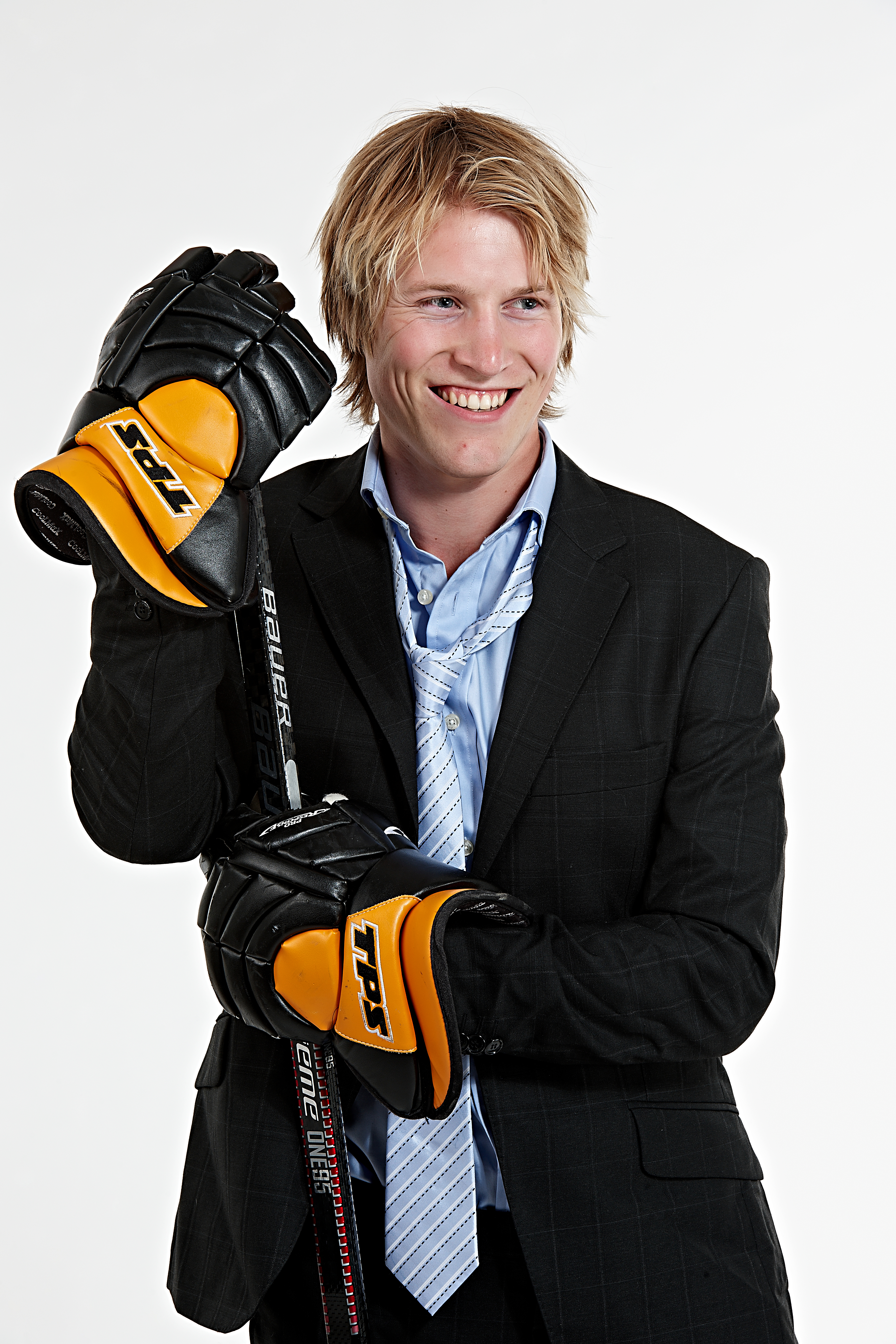 Mathis Olimb shot by Dmitry Valberg for Hockey Magasinet